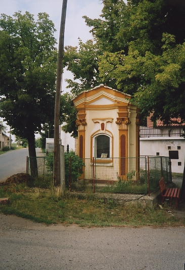 Village of Roudnicek nad Ohri